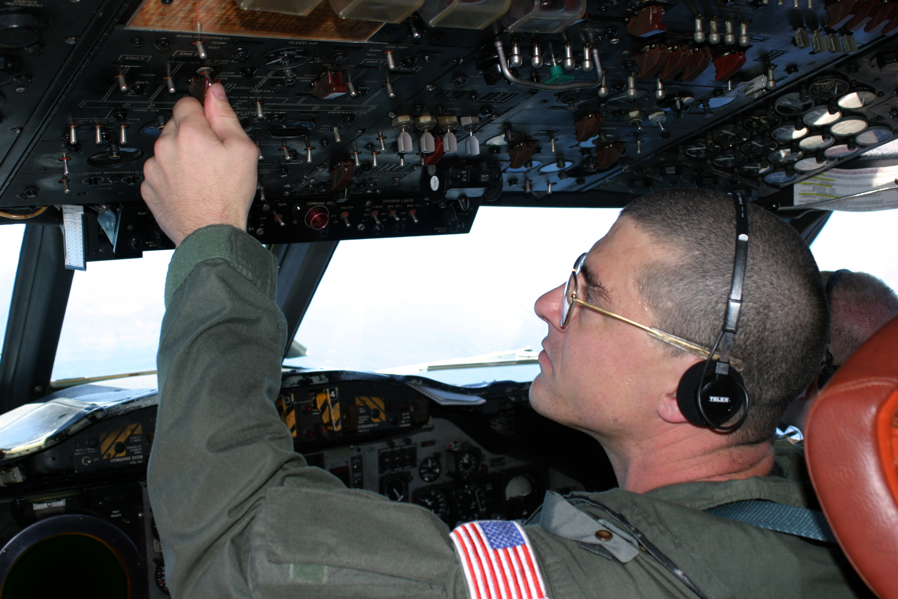 Seventh Fleet Area of Operation (July 20, 2004) - Flight Engineer Chief Aviation Electrician's Mate Jacob Bristow sets a switch in the cockpit of a P-3C Orion patrol aircraft assigned to the "Grey Knights" of Patrol Squadron Four Six (VP-46). During Operation Iraqi Freedom (OIF), VP-46 provided air support for U.S. Marines and Special Forces as they advanced toward Baghdad. VP-46 is currently forward deployed to Kadena Air Force Base, Japan. U.S. Navy photo by Photographer's Mate 1st Class Brad Dillon (RELEASED)